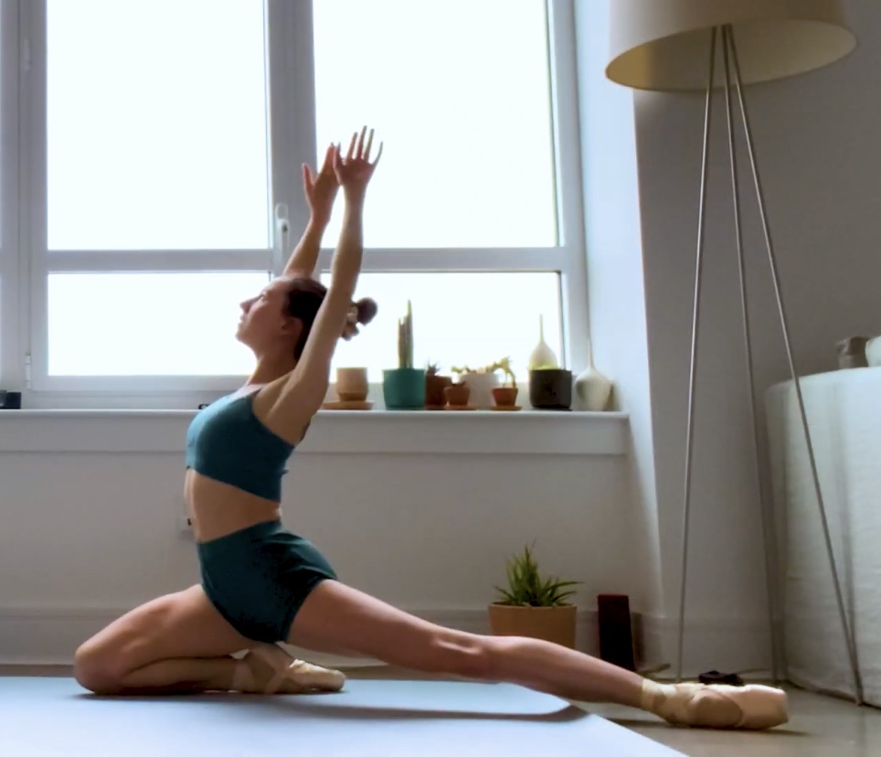 Swans For Relief - Isabella, American Ballet Theatre, USA Donate: 32 premier ballerinas from 22 dance companies in 14 countries perform Le Cygne (The Swan) variation sequentially in support of Swans for Relief. Organized by Misty Copeland and Joseph Phillips, 100% of the funds raised will be distributed to each dancer’s company’s COVID-19 relief fund, or other arts/dance-based relief fund in the event that a company is not set up to receive donations. To donate please visit, Ballet companies are largely dependent on revenue from performances to pay their dancers and fund their operations, but due to the coronavirus pandemic, all performances have been halted. Consequently, many dancers are unable to depend on paychecks and are facing the hardship of paying rent and/or buying food and other necessities. Le Cygne (The Swan) with music by Camille Saint-Saëns, performed by cellist Wade Davis (USA), with choreography by Michel Fokine by kind permission of the Fokine Estate-Archive.